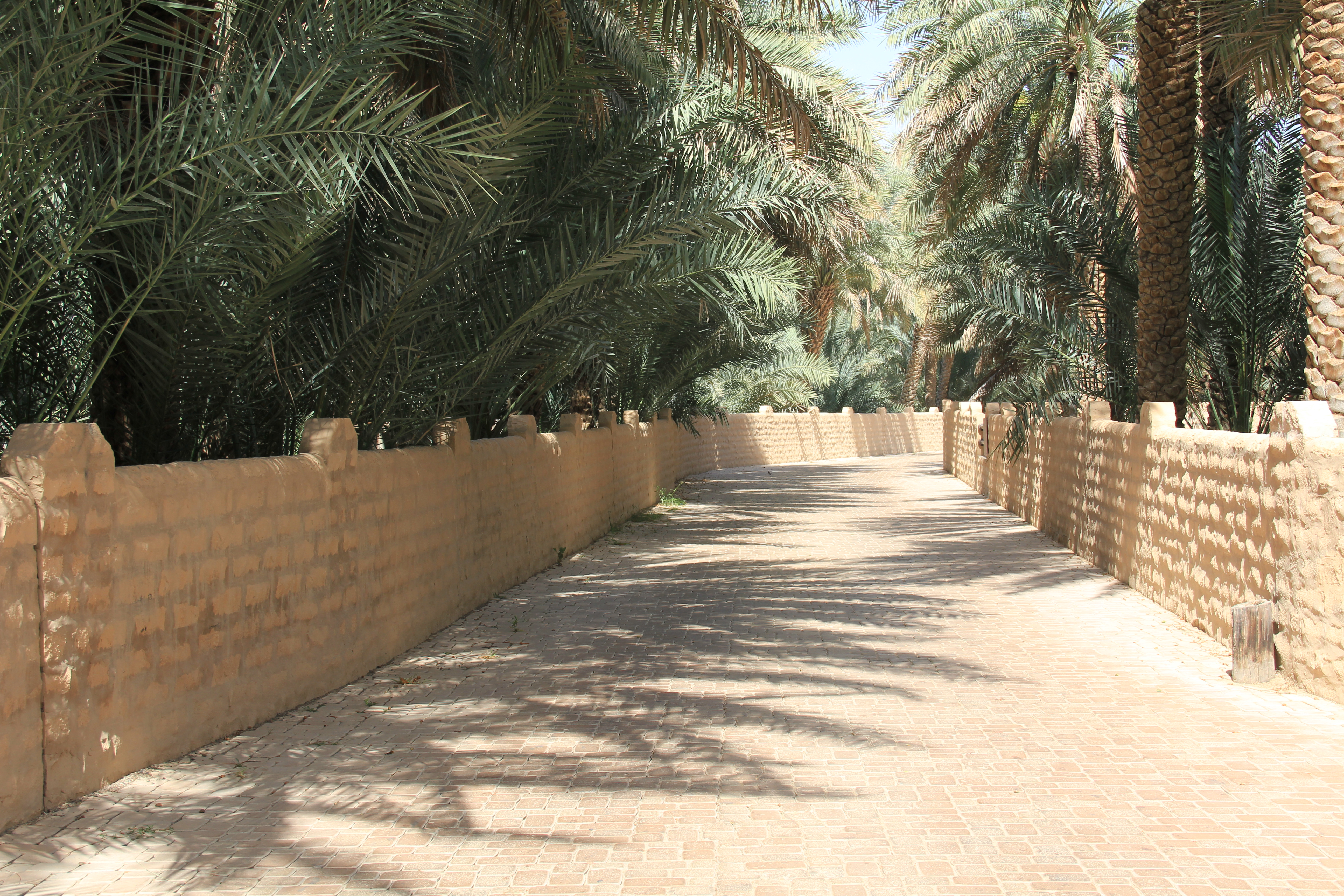 Beautiful historical site in Al Ain (Abu Dhabi) where you can explore a very old water supply system and enjoy the green plants.